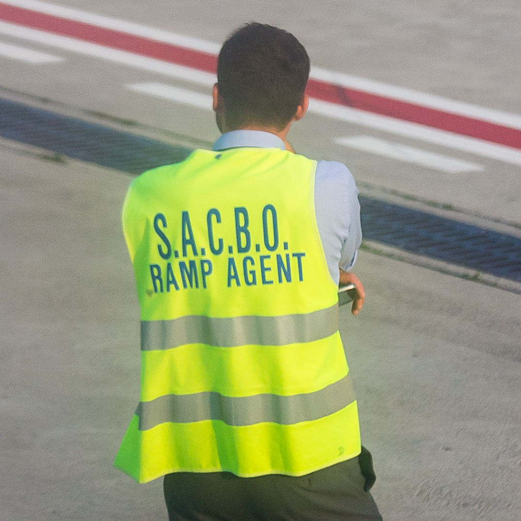 Ramp Agent by S.A.C.B.O. (Società per l'Aeroporto Civile di Bergamo-Orio al Serio) on Orio al Serio International Airport